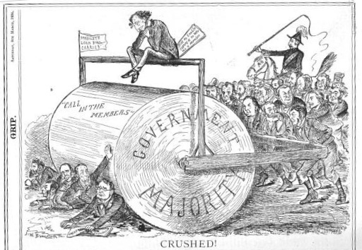 Political cartoon by John Wilson Bengough shoes the Conservative majority in Canada's House of Commons as a steamroller. Macdonald uses his parliamentary majority to roll to victory over Liberal leader Edward Blake.